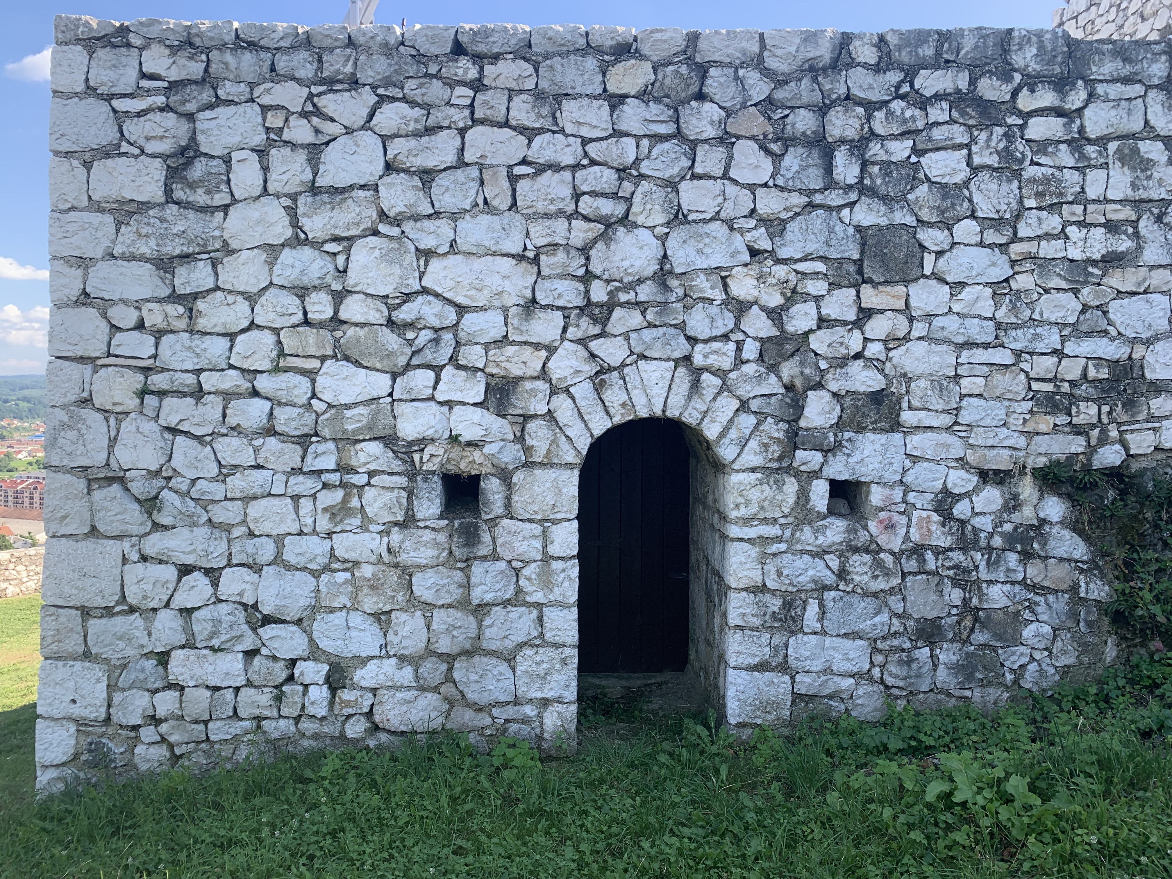 Armory